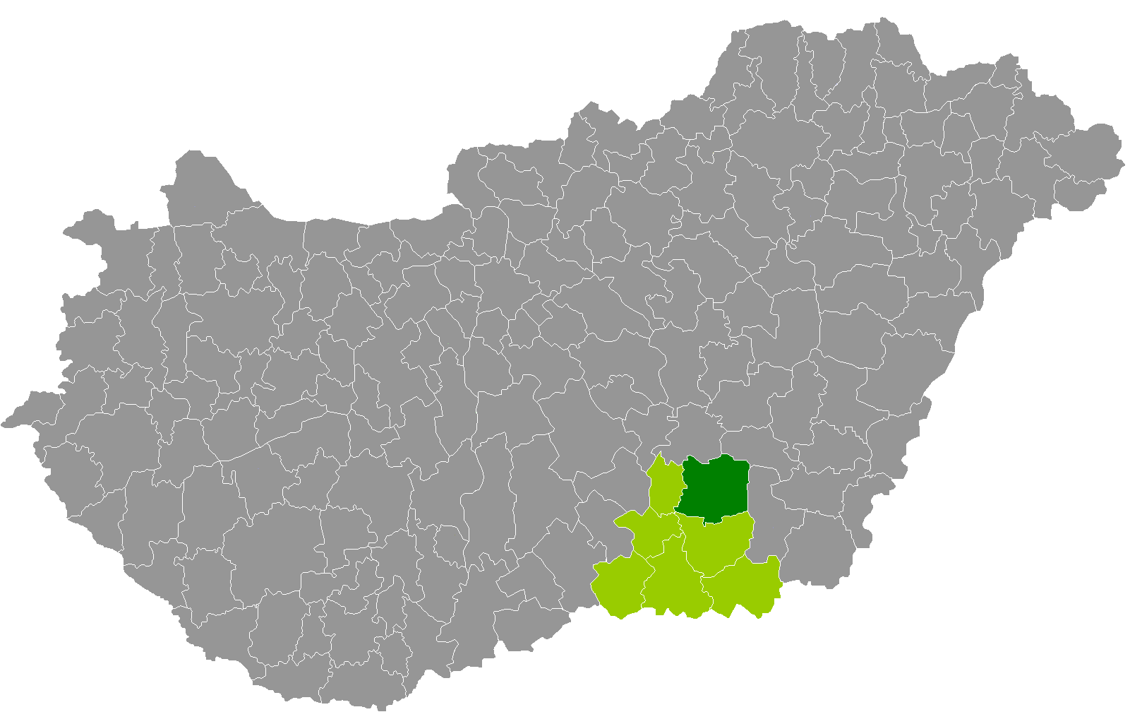 Location of Szentes District, Csongrád, Hungary